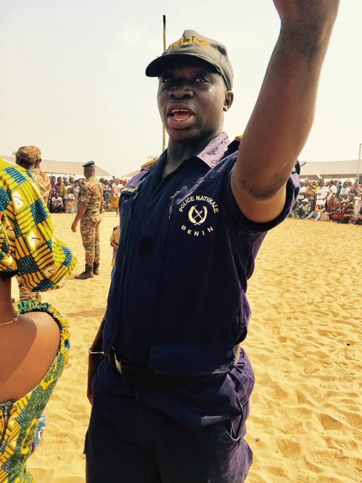 Benin cop, Ouidah Voudoun Festival This is an image from Benin